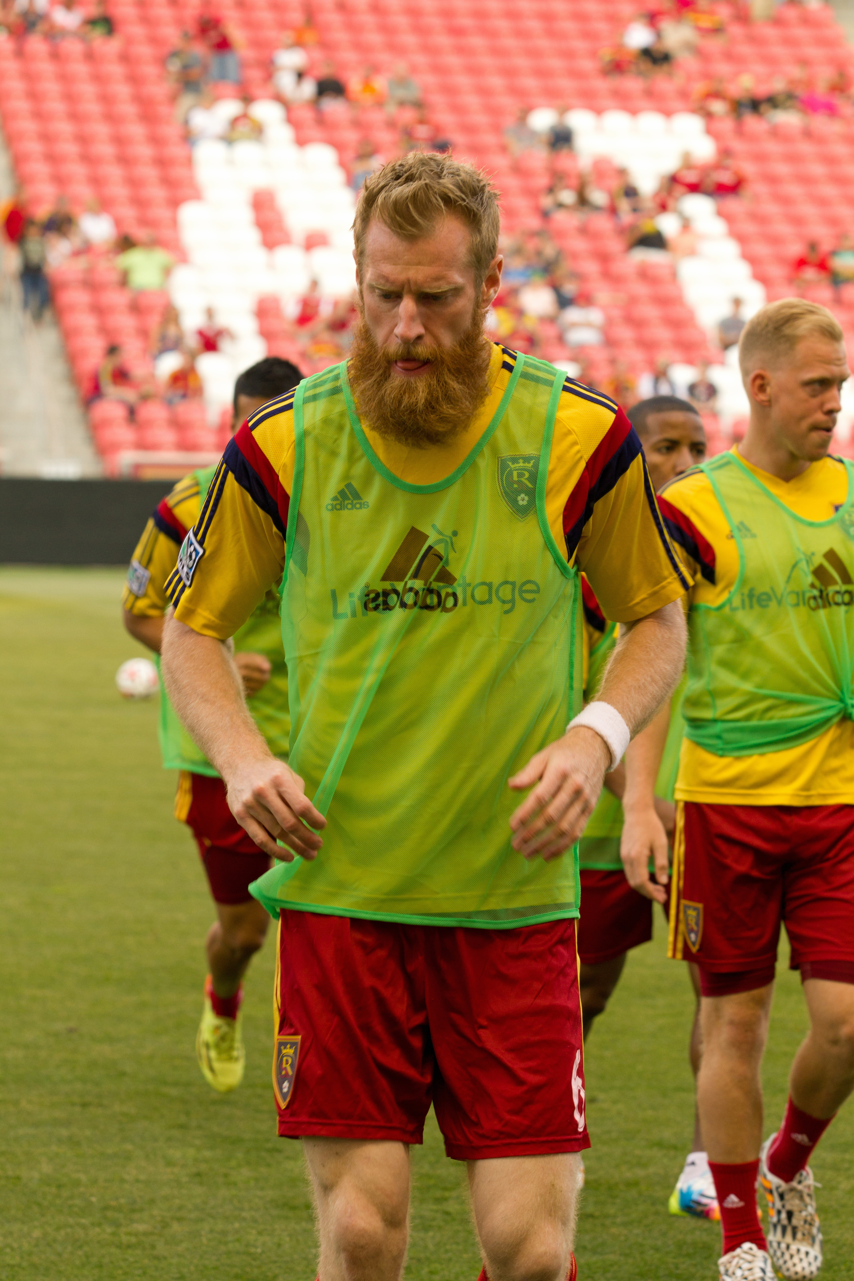 Nat Borchers